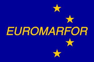 Euromarfor